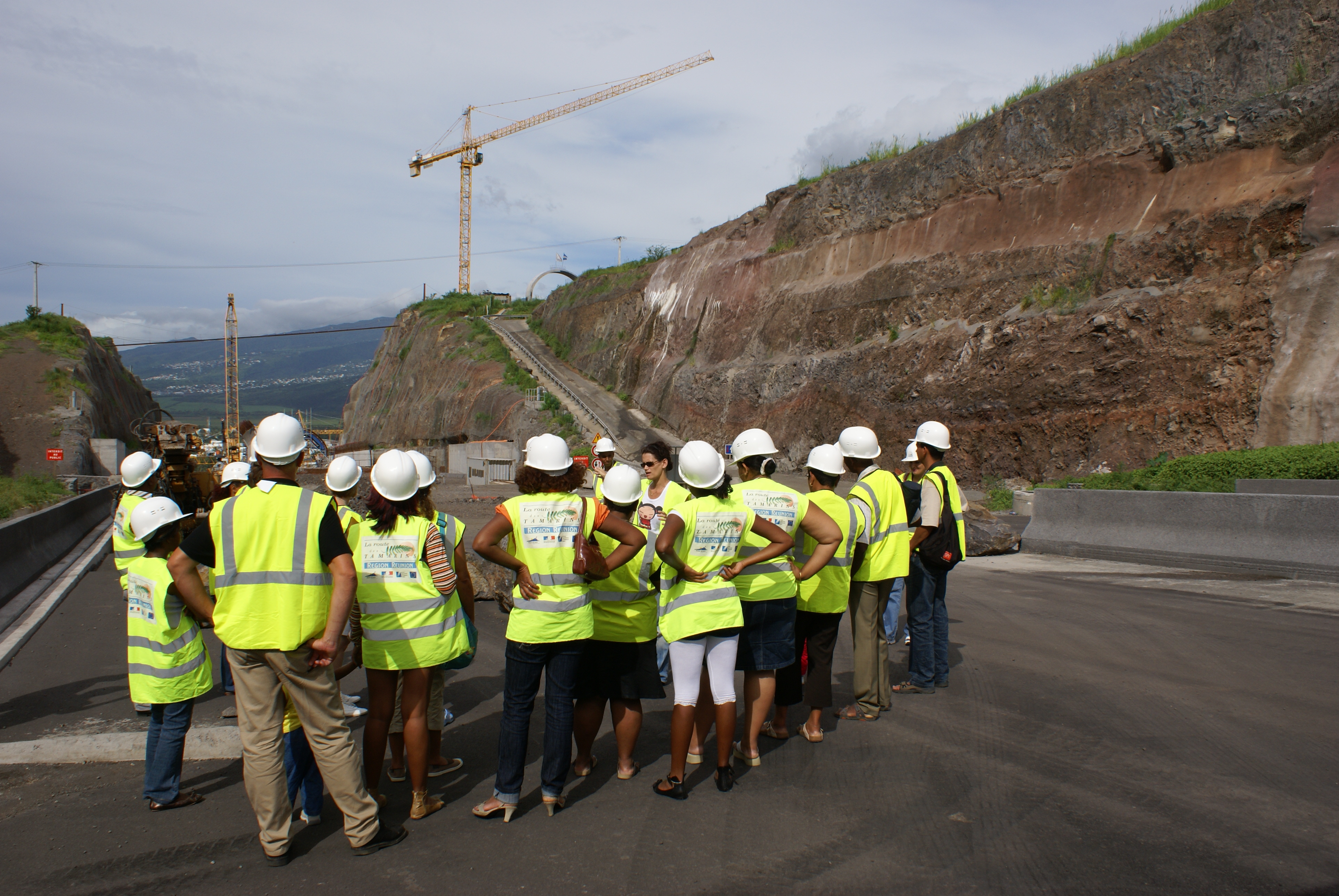 Workings of the Route des Tamarins on Réunion island